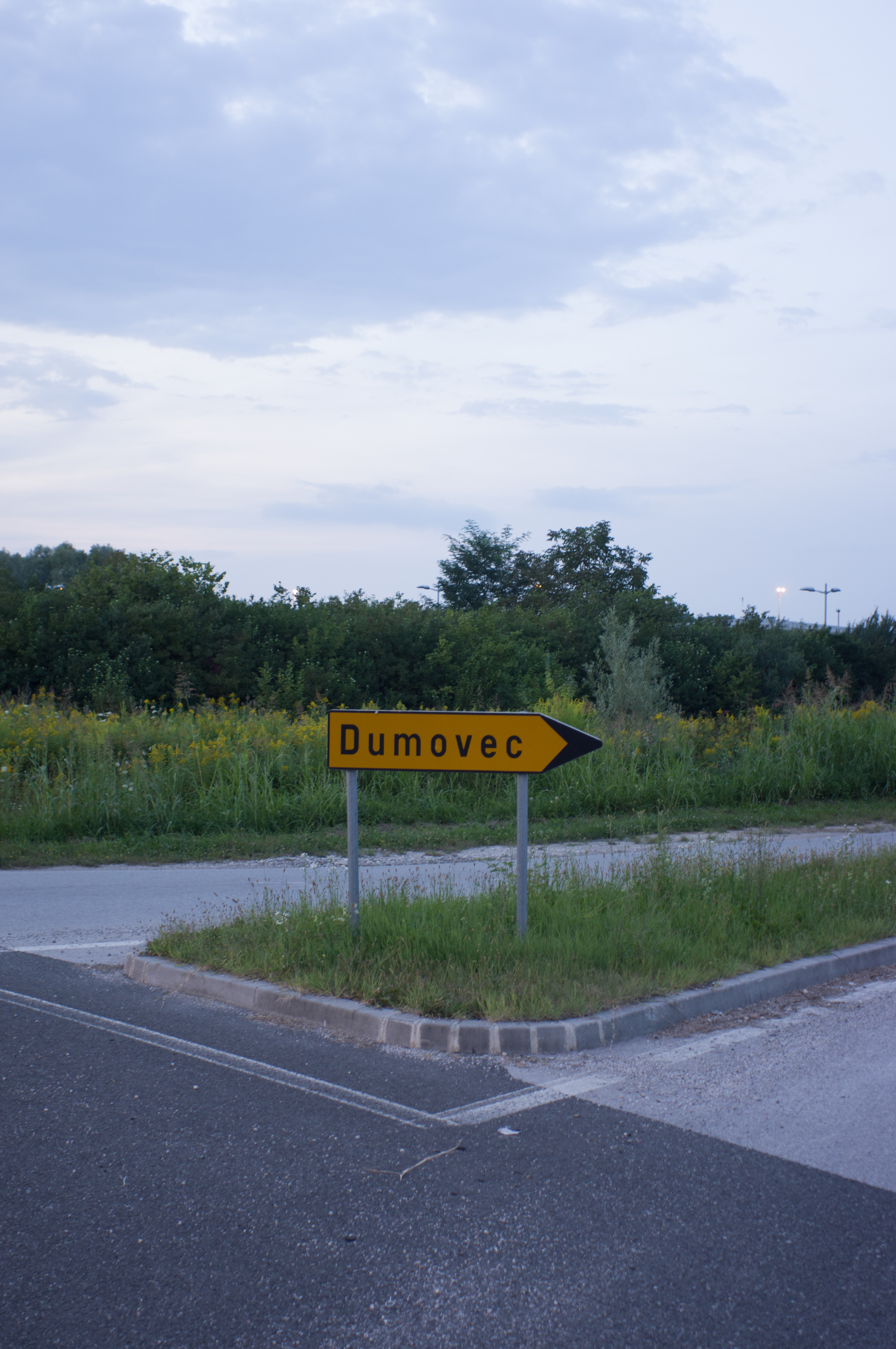 Go right to enter Dumovec